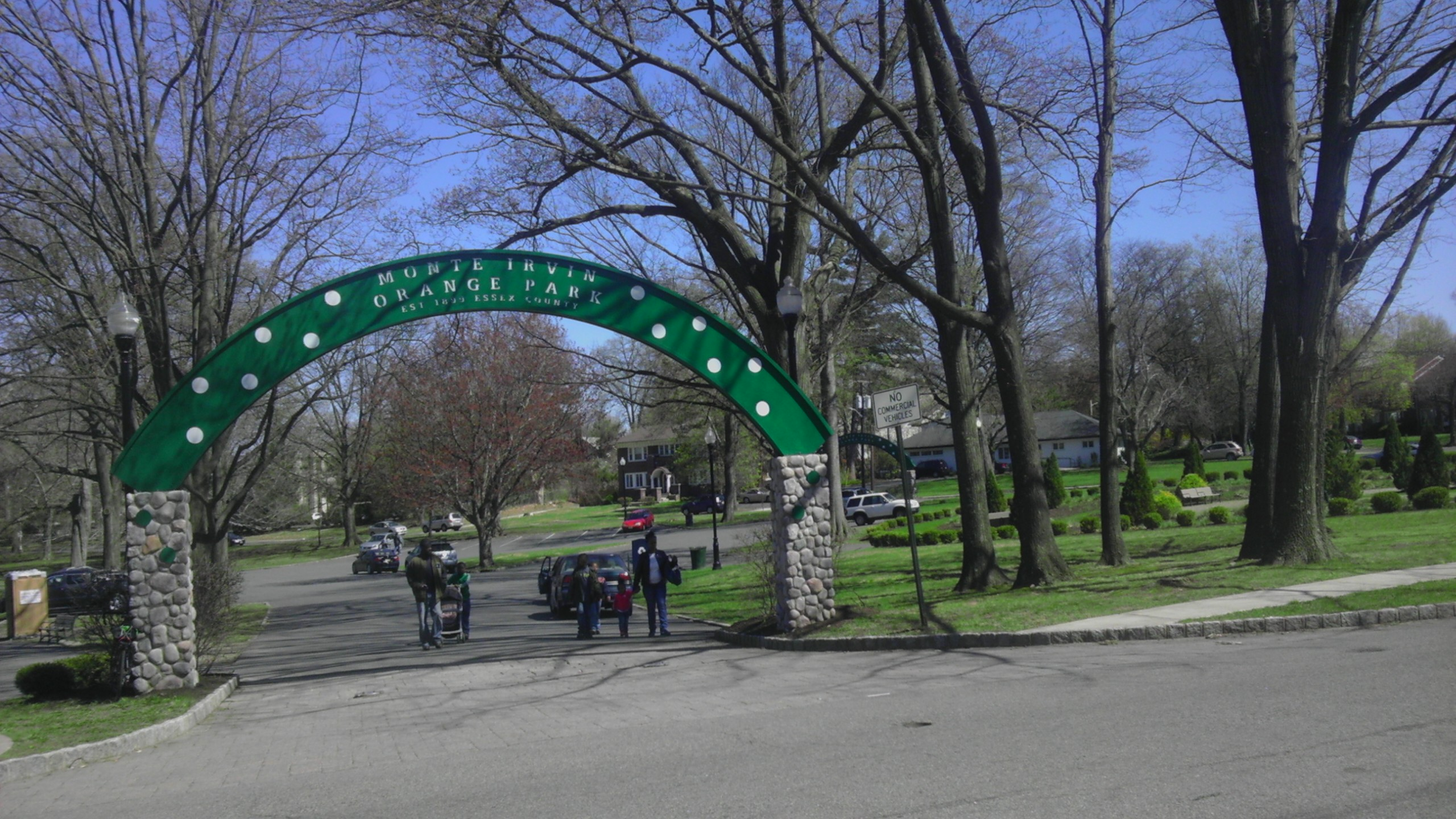 Looking south from Central Avenue at Orange Park entrance on a sunny afternoon.